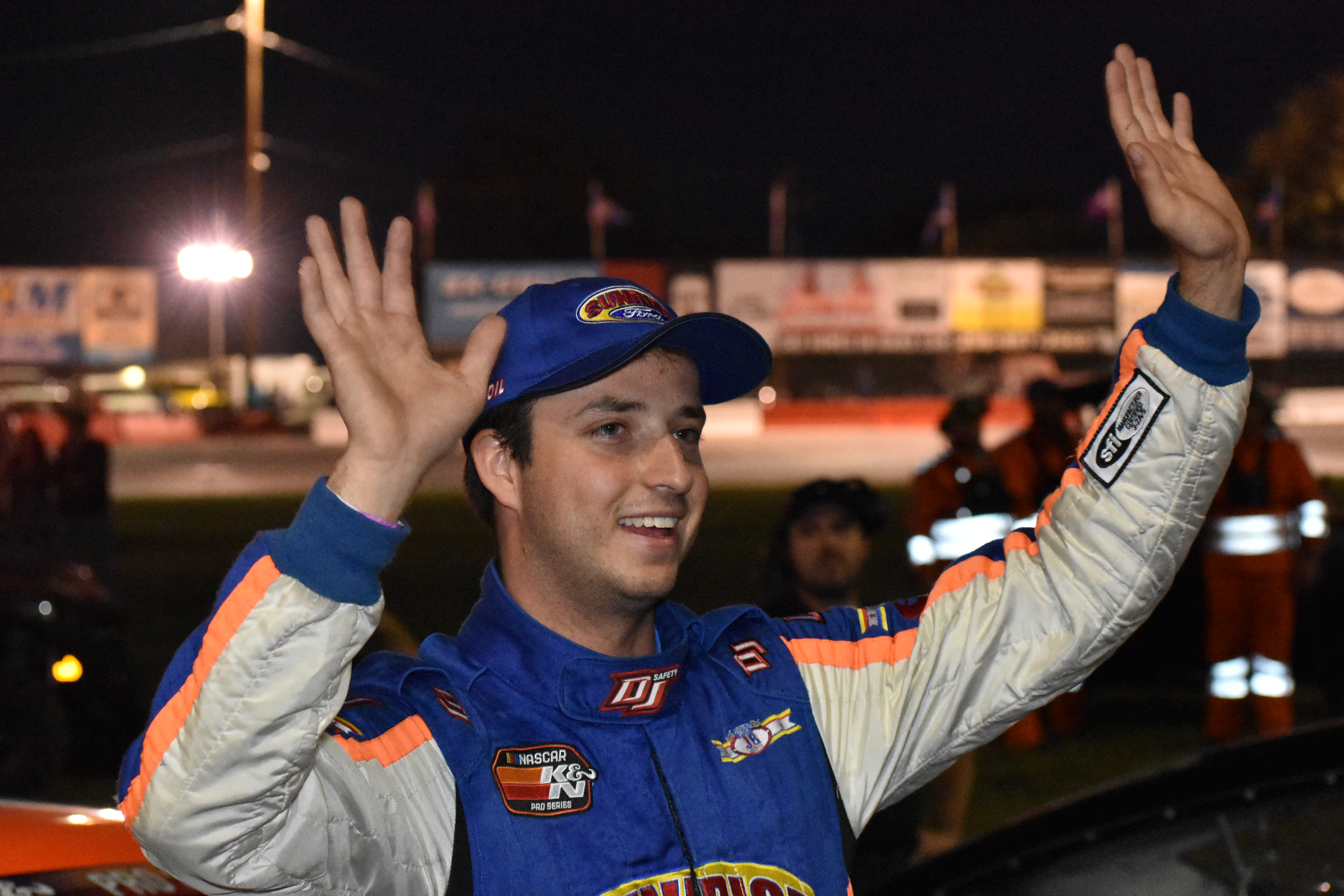 Trevor Huddleston at Meridian Speedway in 2018